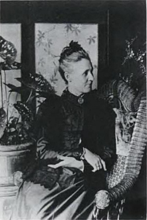 Mary Waterhouse Rice (1847–1933), wife of William Hyde Rice (1846–1924). She was philanthropist and showed deep concern for the welfare the people of Kauai and was affectionately known as "Mother Rice."